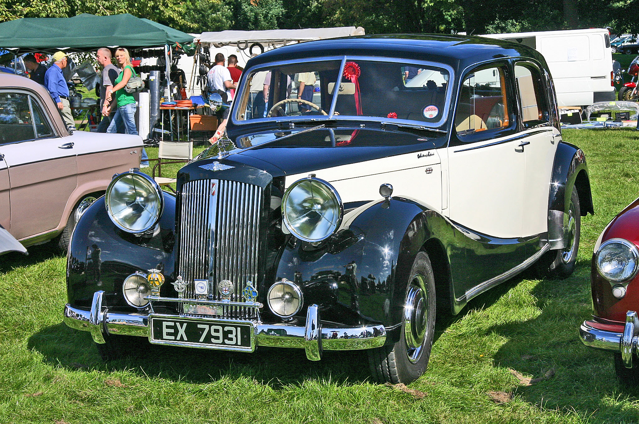 The A125 began as project A120 in 1942 and aimed to take Austin into the lower Bentley realm. After only 12 had been built a larger 3993cc engine was fitted and the A125 Sheerline was produced 1947-54. A more luxurious version built by newly acquired Vanden-Plas could be ordered as the Austin A135 Princess.